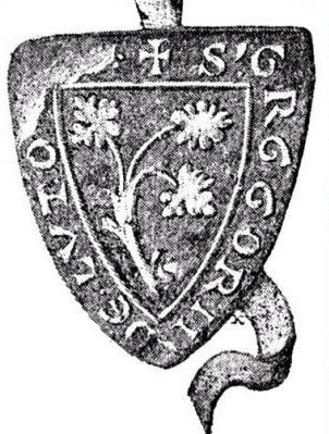 The seal of Rehnik from Litovice with the arms of the lords of Drazice